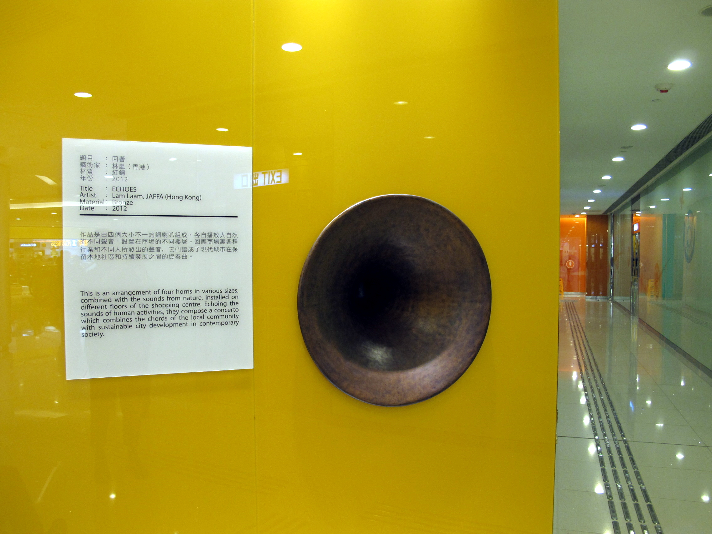 Domain Mall Washroom Access Artwork